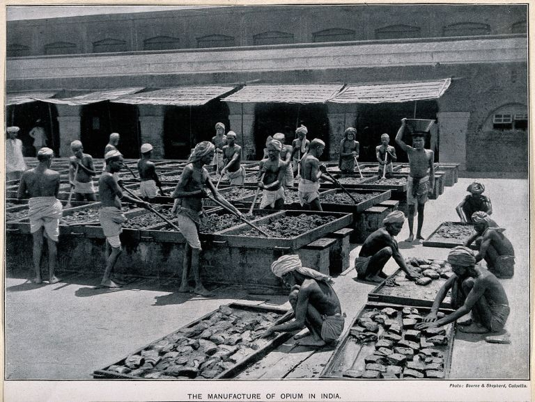 Opium production in Calcutta, India, in 1900. Workers in dhotis and turbans are mixing and balling opium.